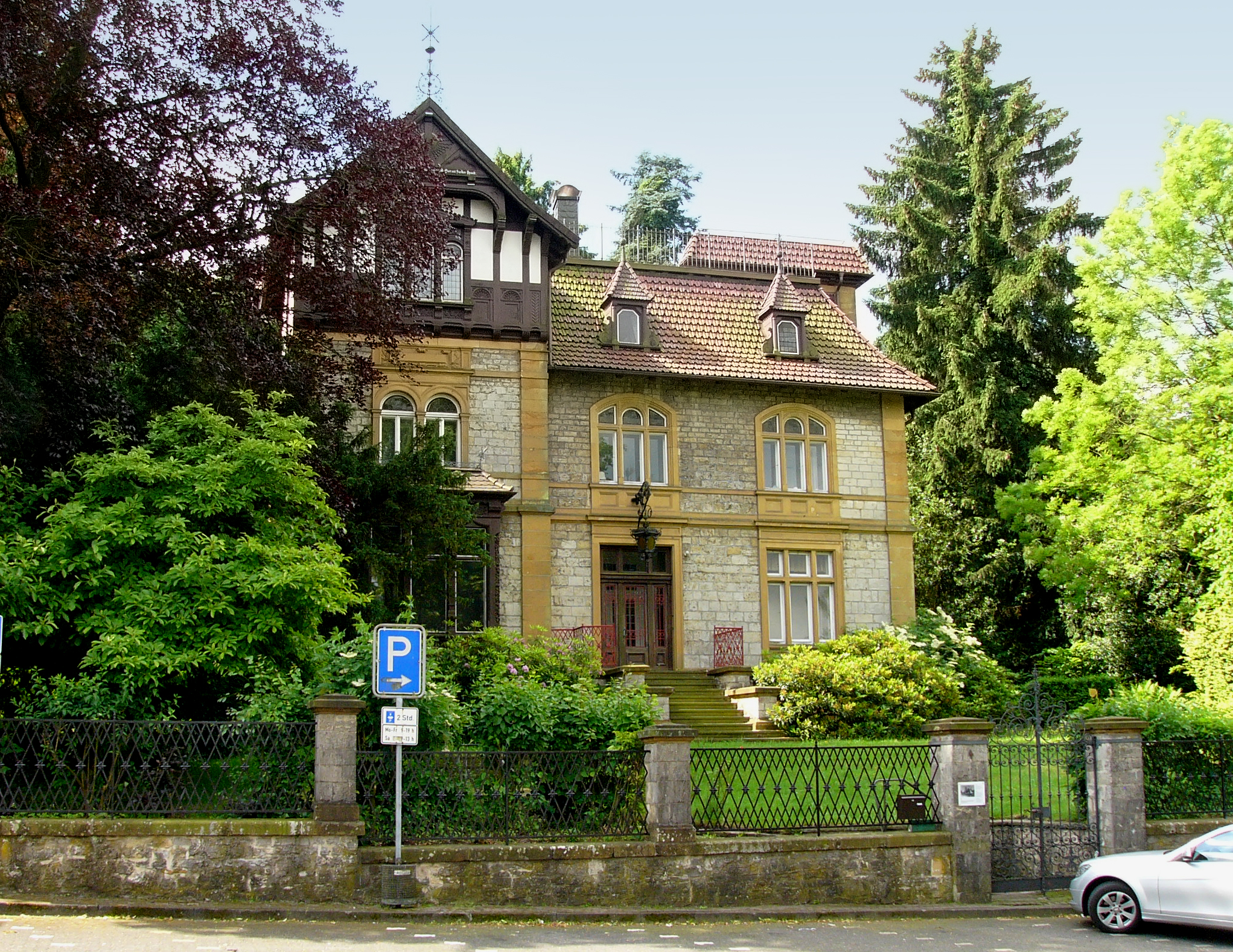 Residential building of Carl David Weber at Detmolder Straße 4 in Oerlinghausen, Germany.